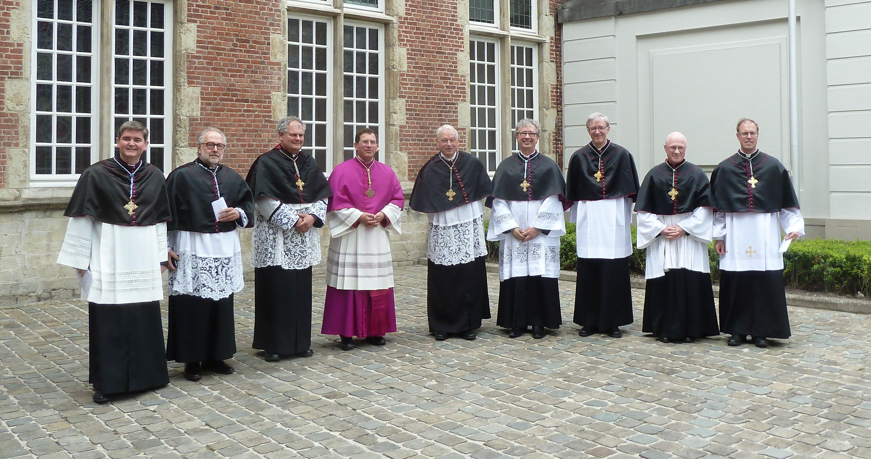 Procession of the Precious Blood, Bruges AD 2019: Bishop Lode Aerts and Chapter of Bruges; Pierre Breyne; Patrick Degrieck; Stefaan Franco; Philippe Hallein; Henk Laridon; Lieven Soetaert; Marc Steen; Piet Vandevoorde.